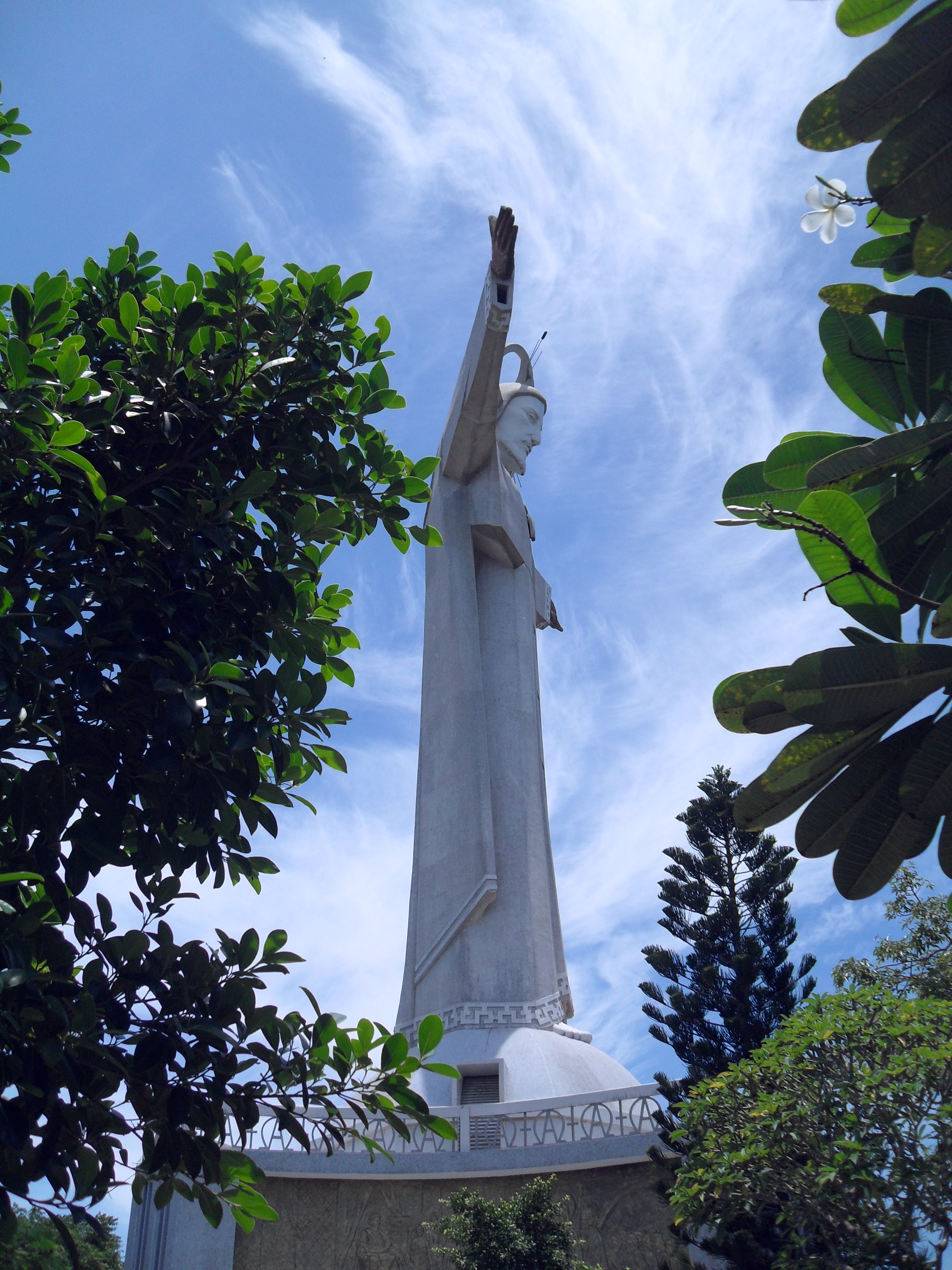 Giant statue of Jesus in Vung Tau, Vietnam